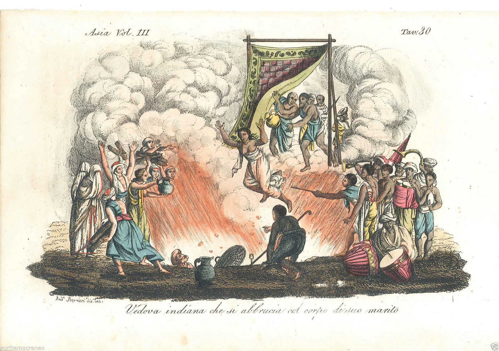 A sati as depicted by Giulio Ferrario, from 'Il costumo antico e moderno', Florence, c.1816 Source: ebay, Dec. 2013